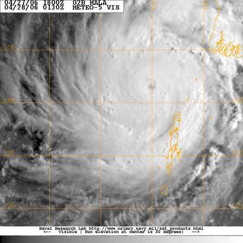 This image shows Cyclone Mala in the eastern Bay of Bengal on April 27, 2006